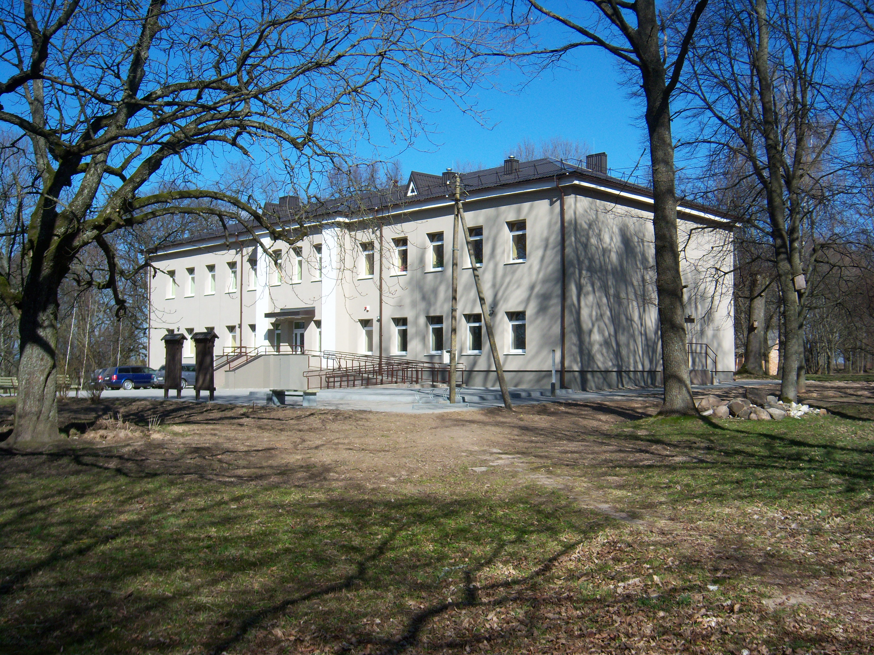 Ašminta school, Prienai district, Lithuania